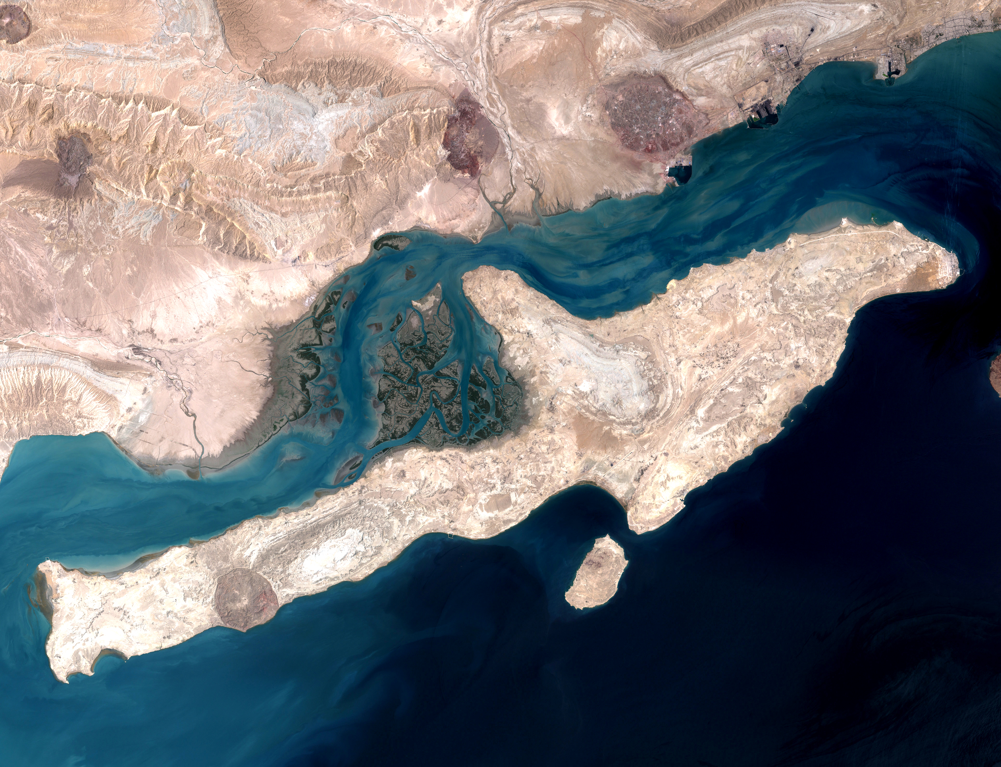 Qeshm Island in the Strait of Hormuz, Iran. This image is a combination of two images acquired by the Enhanced Thematic Mapper on NASA’s Landsat 7 satellite